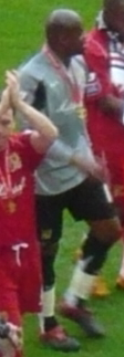 Willy Guéret. Image cropped from original at flickr.